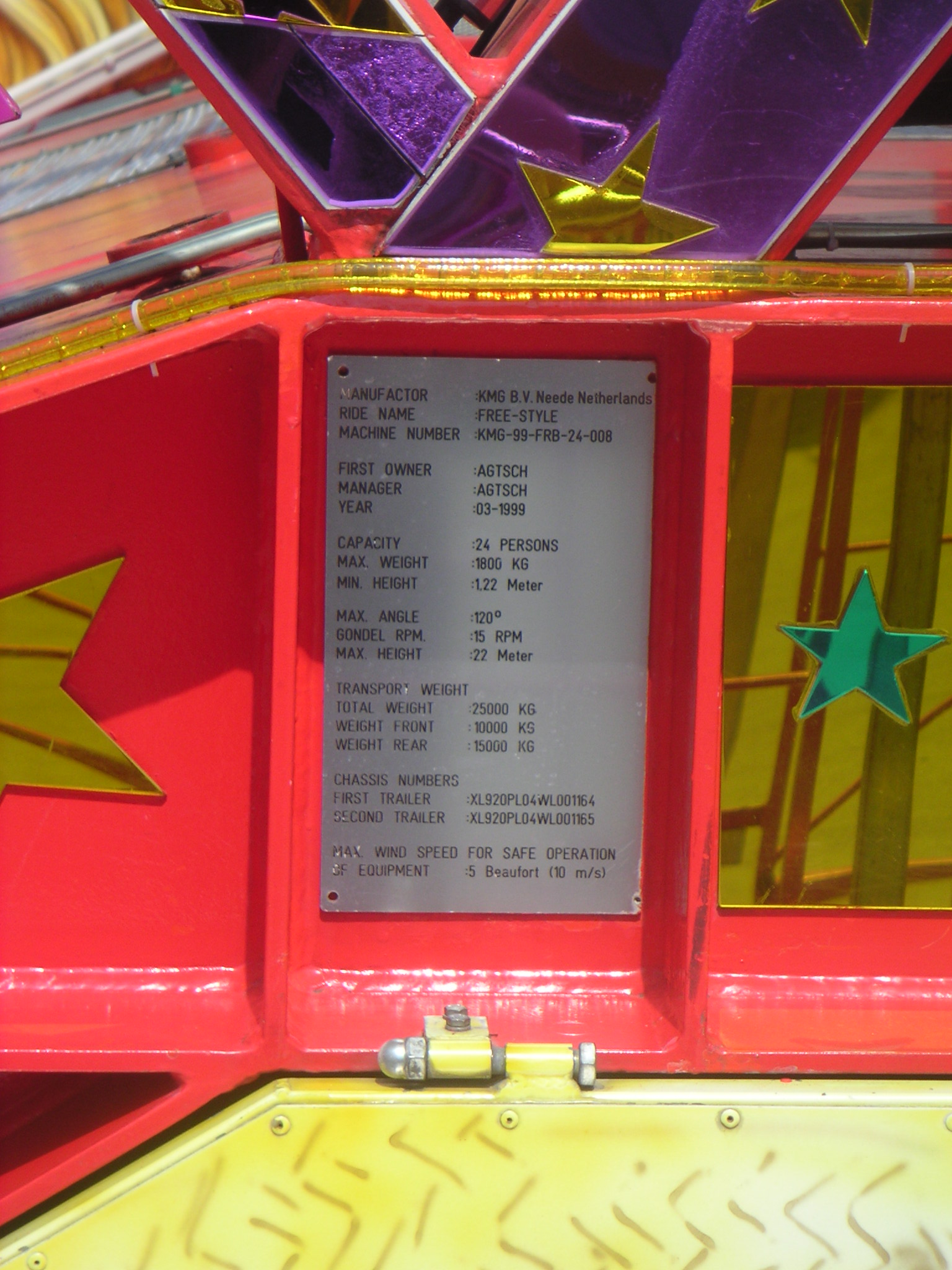 KMG Afterburner "FREE-STYLE" Identification Plate